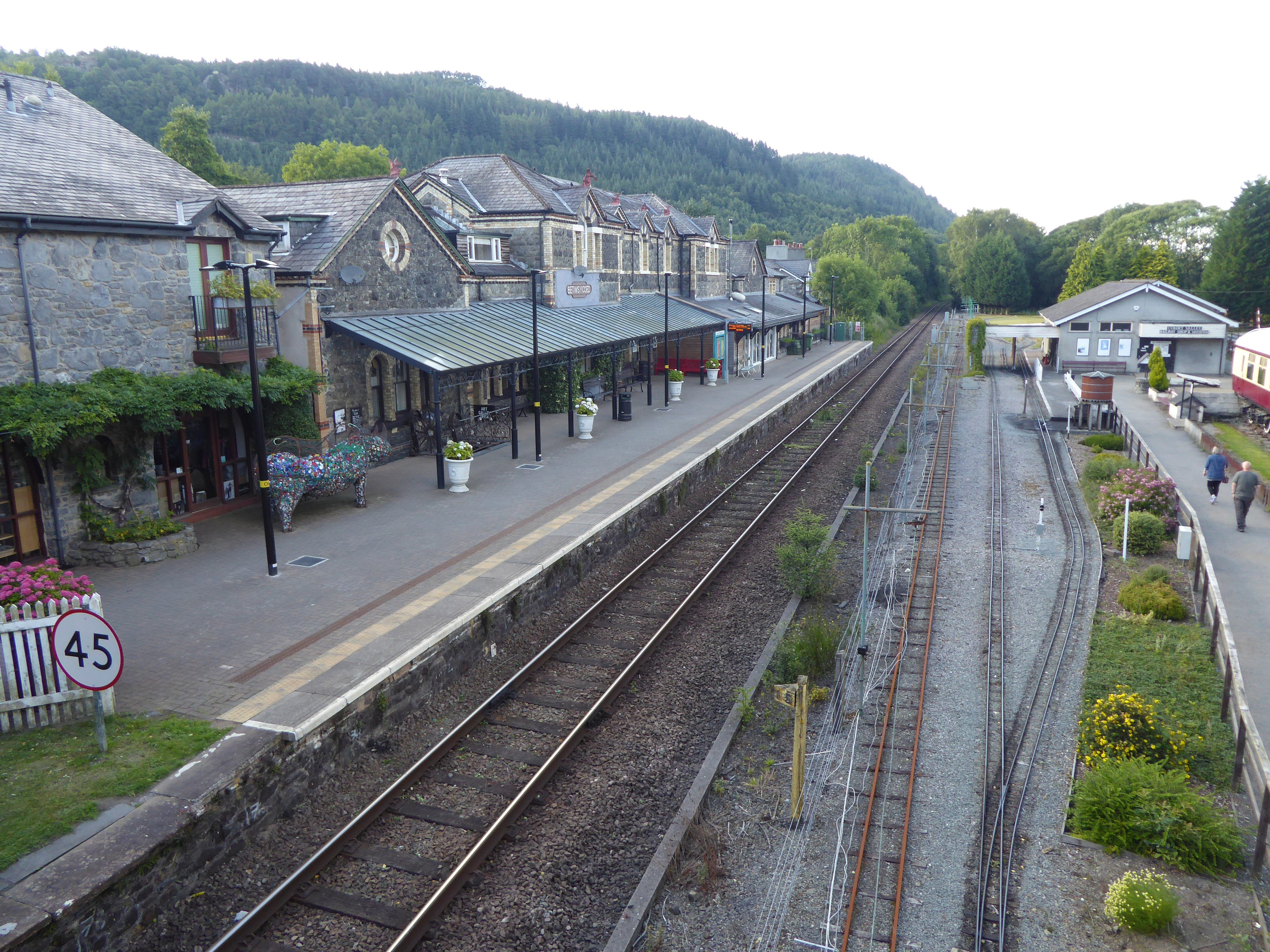 Betws-y-Coed railway station taken from a nearby bridge. The Conwy Valley Railway Shop & Museum can be seen in the upper right of the photo.